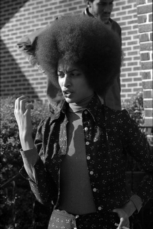 Denise Oliver Velez from the Revolutionary Peoples' Communications Network speaking in front of Reverend C.K. Steele's church - Tallahassee, Florida. Photographer: John Buckley Date: Photographed on November 26, 1971.